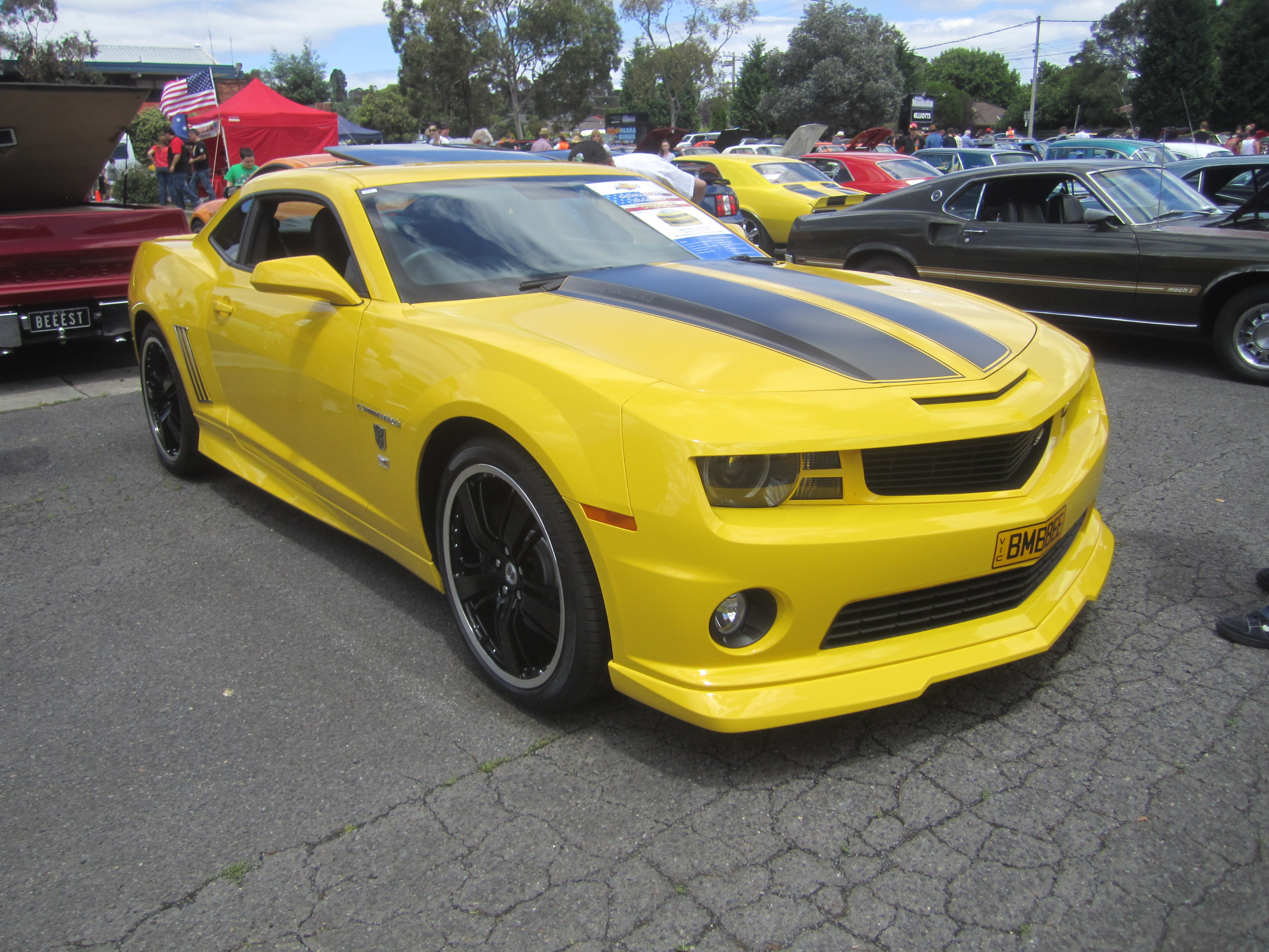 5th Generation Camaro was introduced in 2009. Models; with 3.6 litre V6; LS, 1LT and 2LT, and with 6.2 litre LS3 V8 (425bhp in manual); 1SS and 2SS. This is the Special Edition Transformer model (1916 made). It got Autobot badges and Transformer ghost in the black rally stripe on the Rally Yellow paint. It starred in the 2007 Transformer movie, the war between the computer generated Autobots and Decepticons (they disguised themselves as everyday machinery) The Camaro was the Autobot scout; 'Bumblebee'